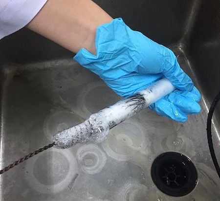 Washing a test tube with the test tube brush.